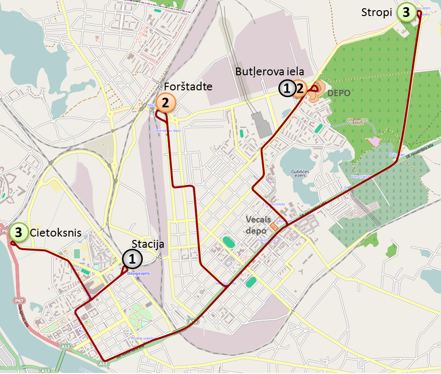 A simplified map of the Daugavpils tram system